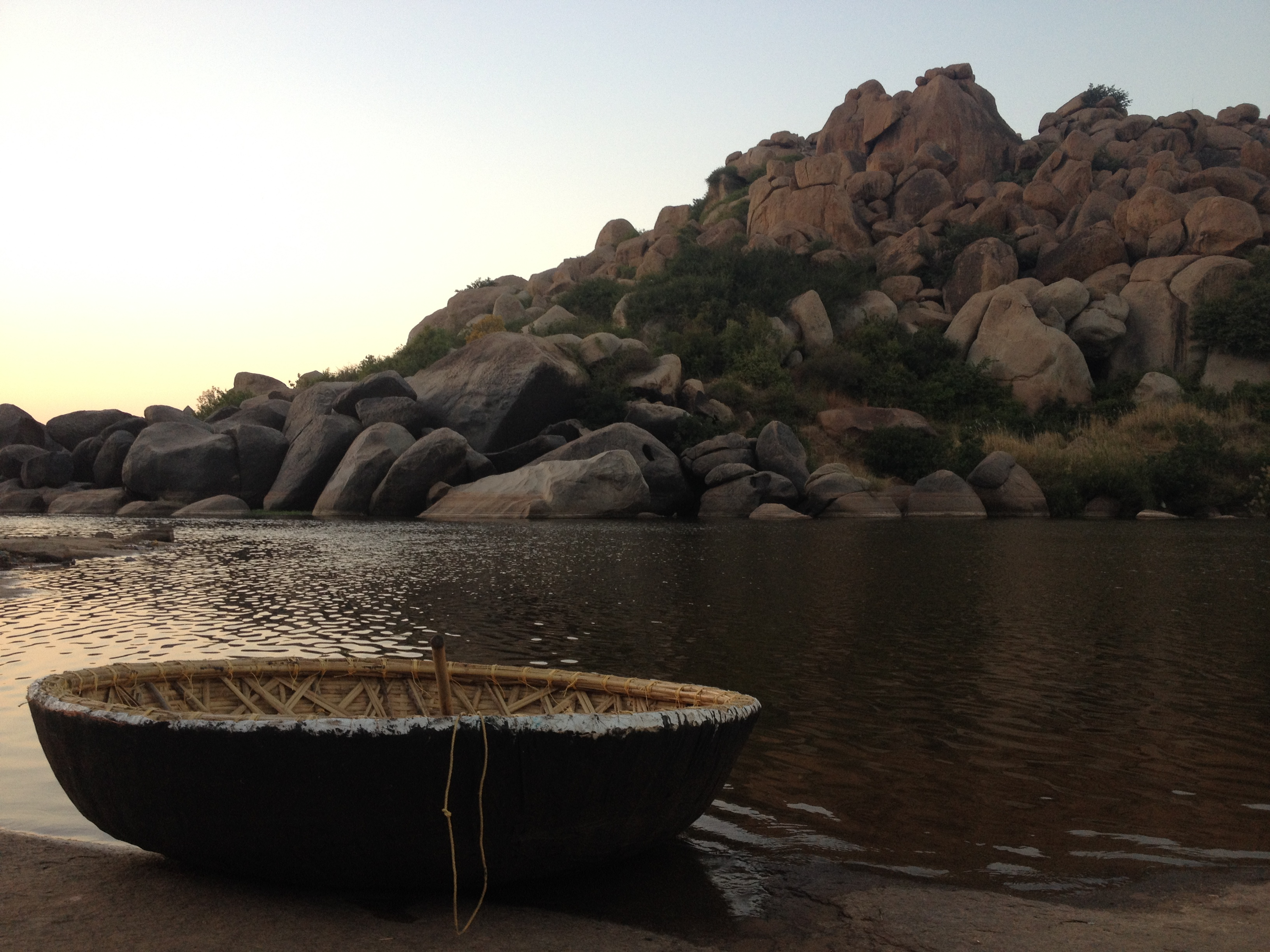 A boat along the lake